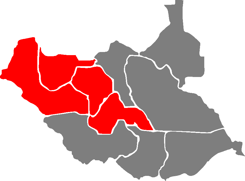 Locator map for the Bahr el Ghazal region of South Sudan. based on map by User:Jesús Rincón.